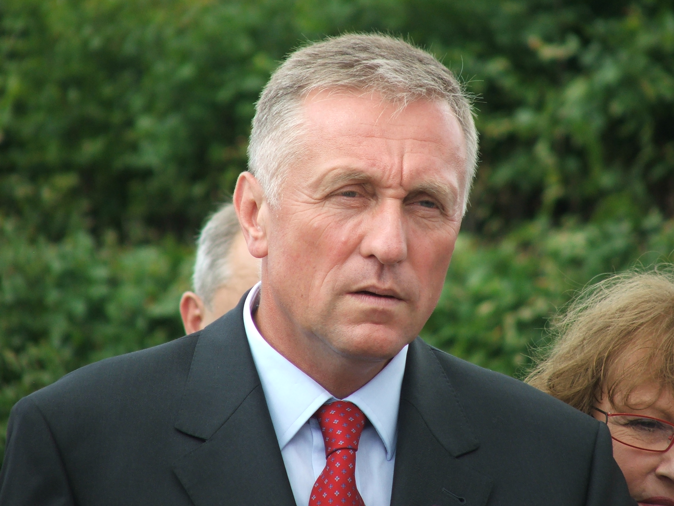 Czech prime minister Mirek Topolánek.